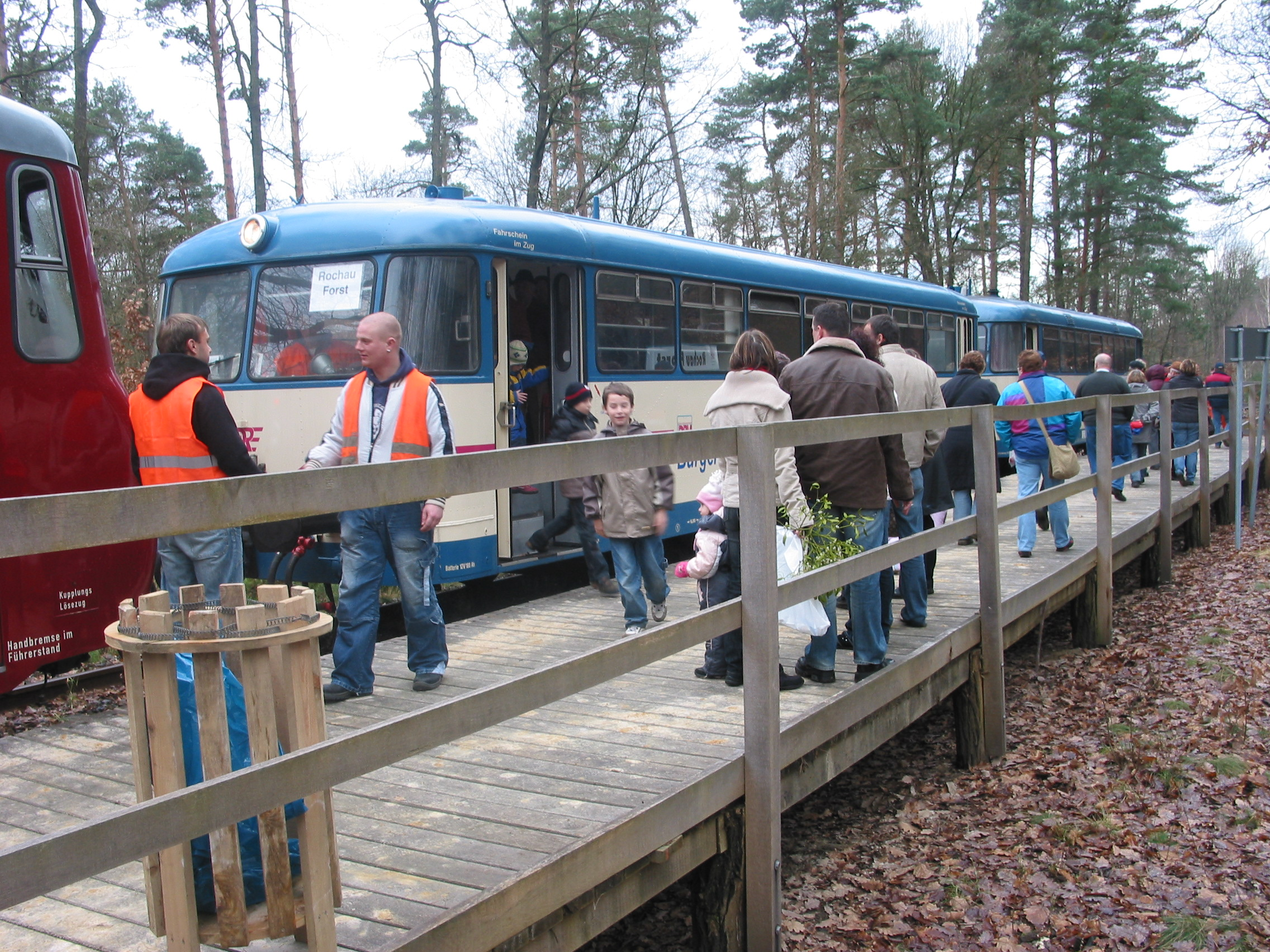 Elbe-Elster-Express and DR-railbus 171 056 meets in Rochau Forst